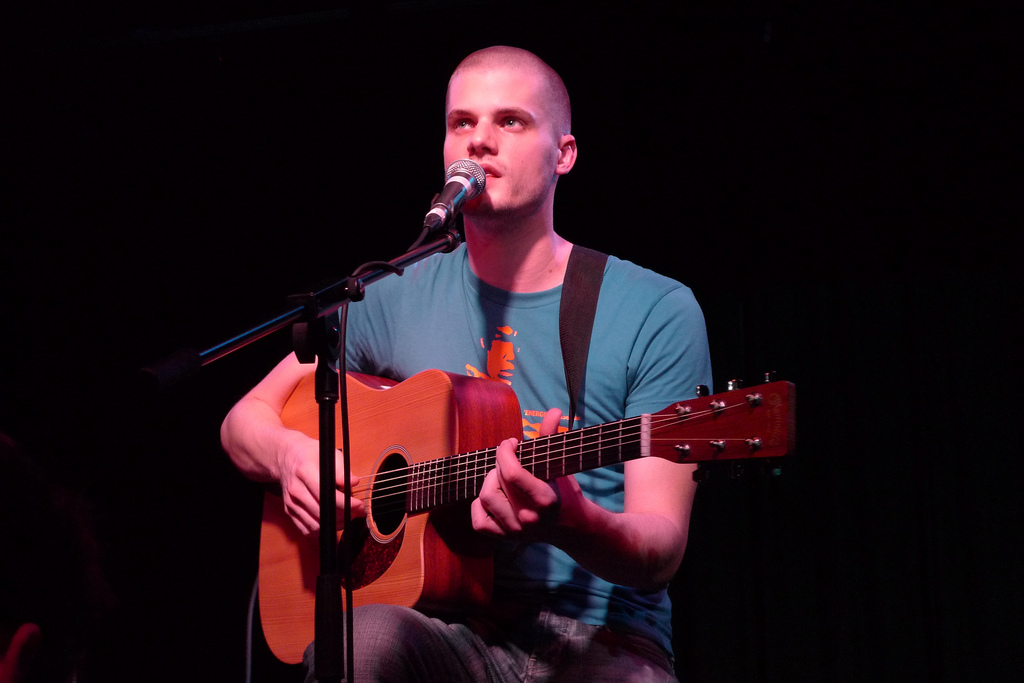 Jay Brannan at the Oxford Art Factory, Sydney